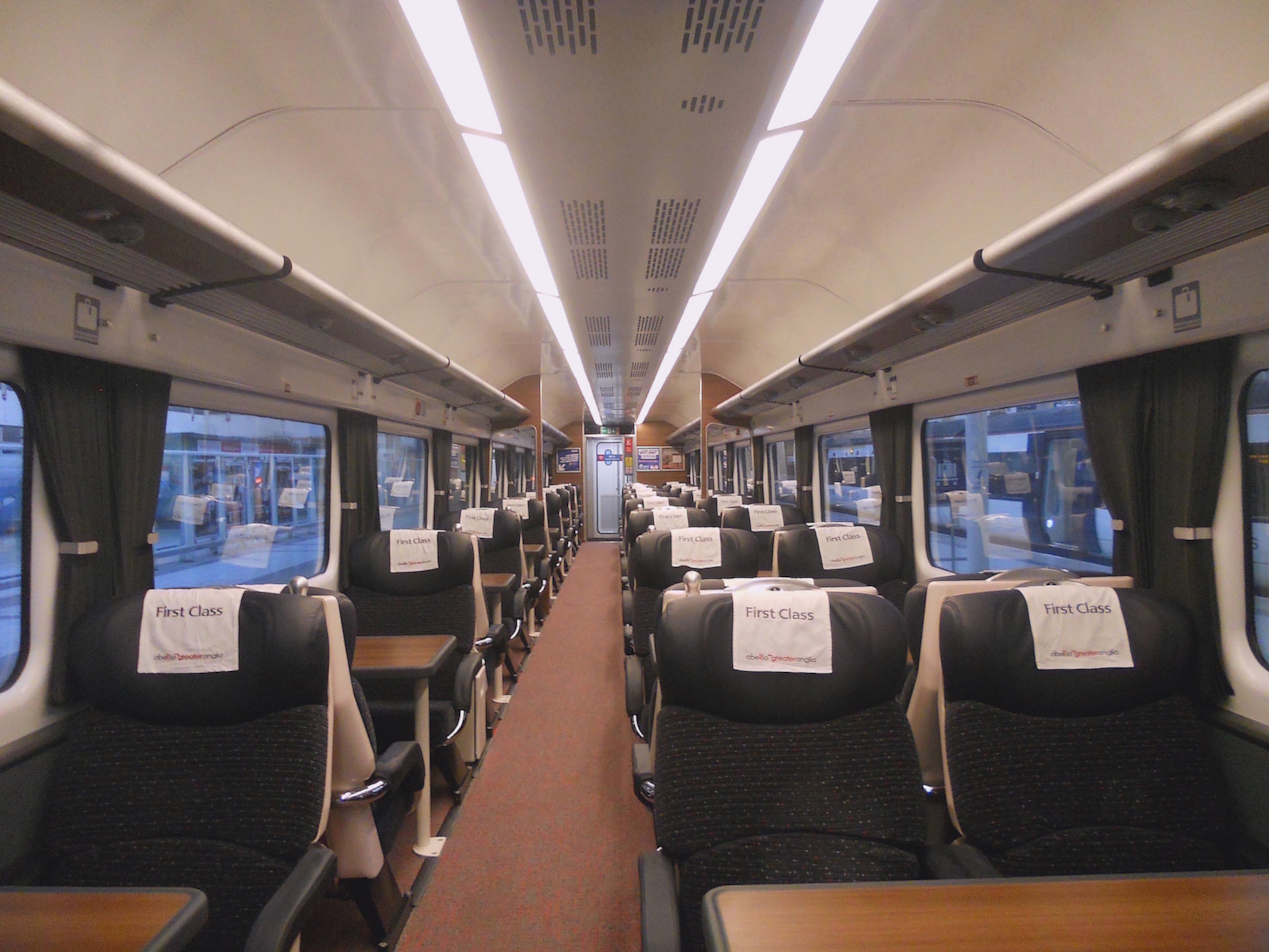 The interior of a Greater Anglia refurbished Mark 3B Open First